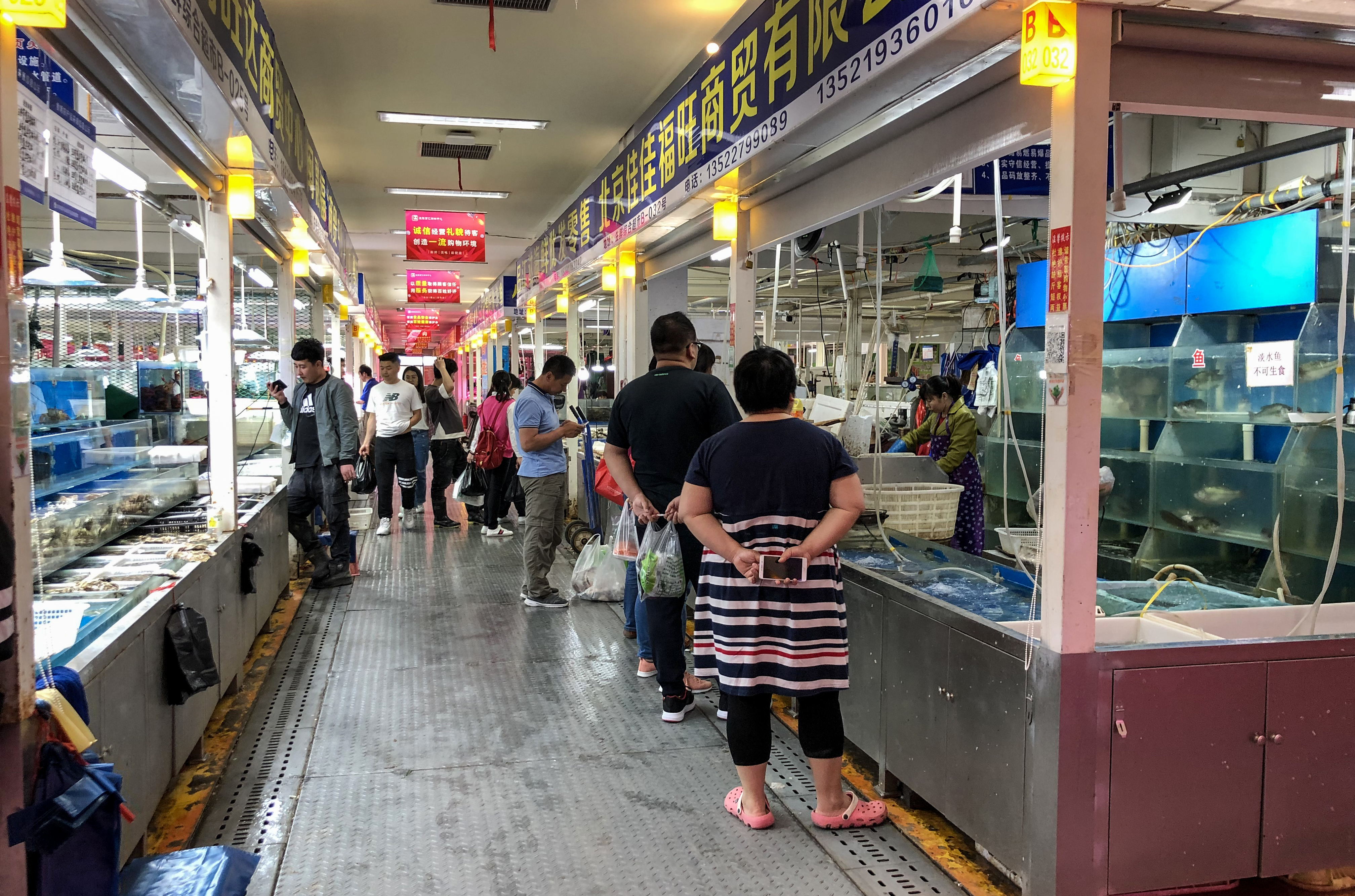 "Do not eat raw freshwater fish".